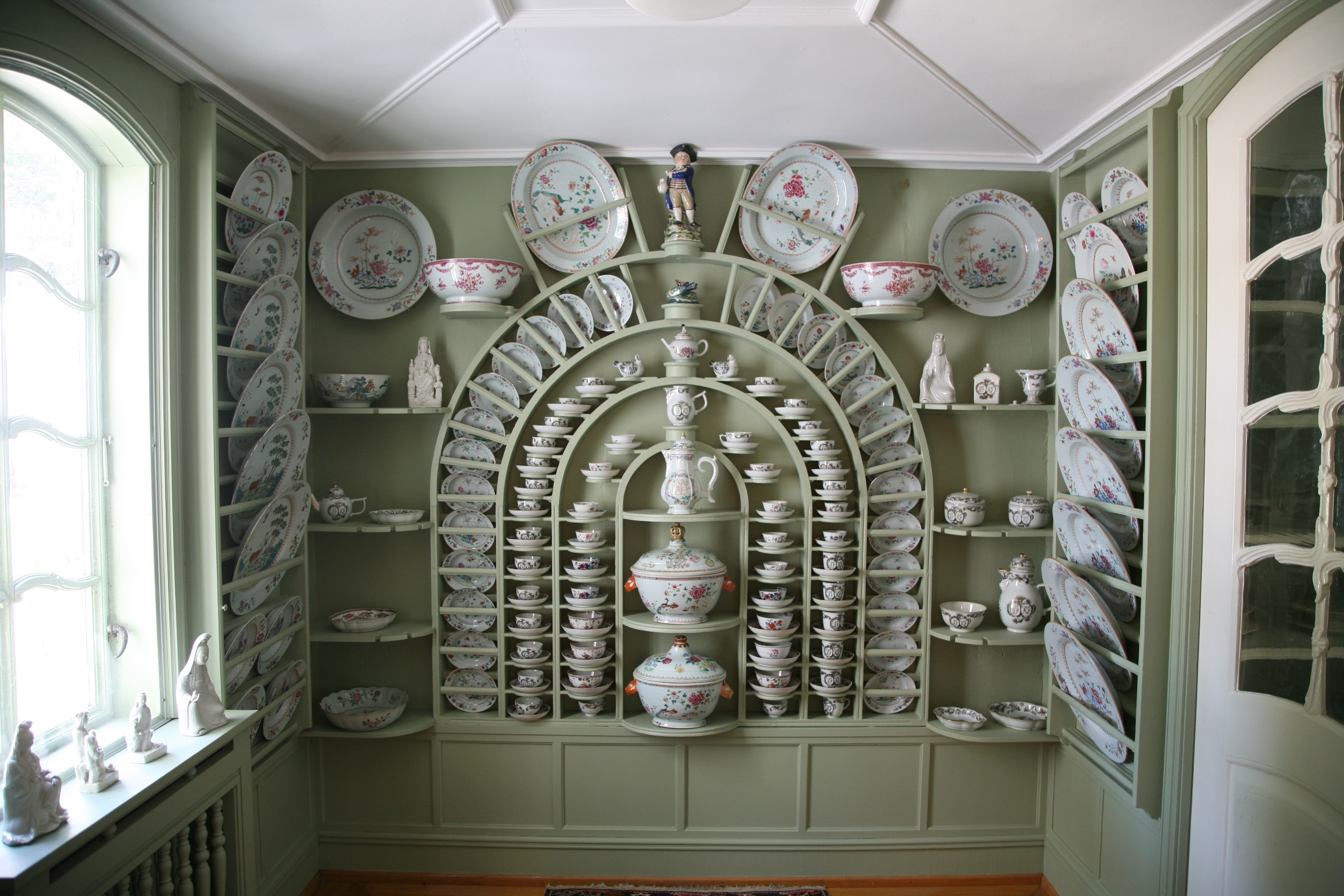 Interior of Alvøen Manor, Bergen, Norway.